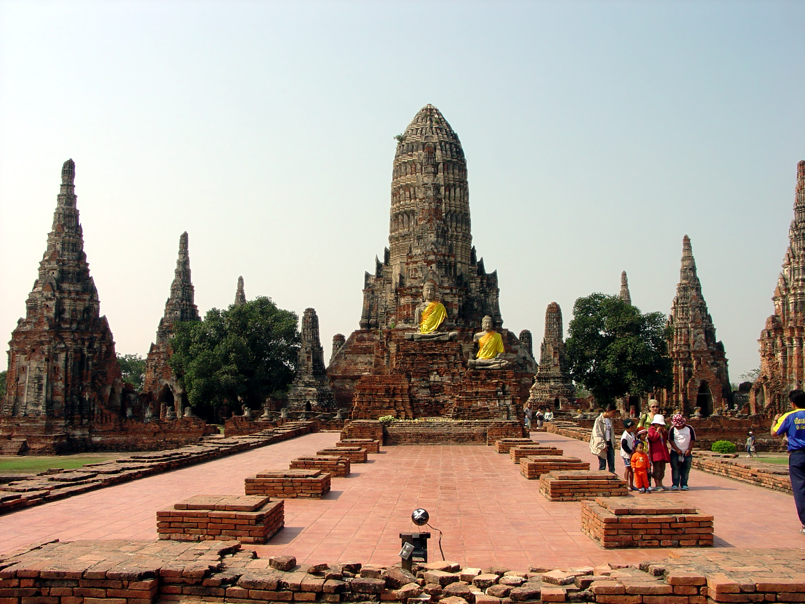 These remains of an ordination hall (Ubosot), together with a pair of restored large sitting Buddhas, are located east of the temple.